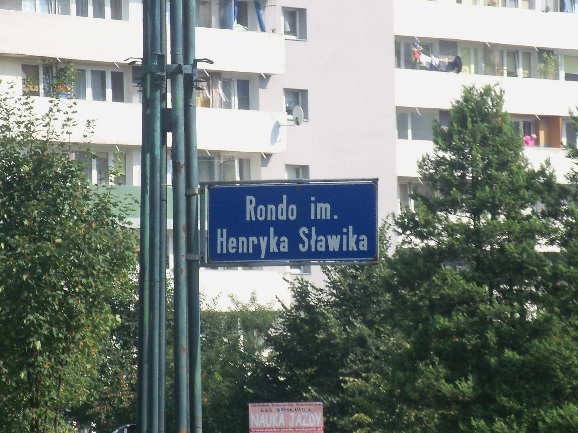 Sławika Rondabout in Katowice